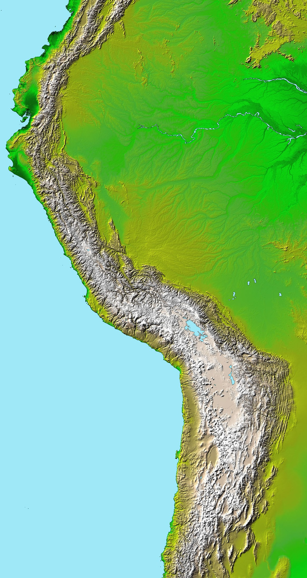 Topography of Andes from a Digital Elevation Model